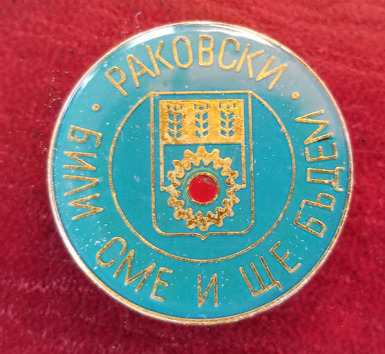 Badge of the municipality of Rakovski, 1982